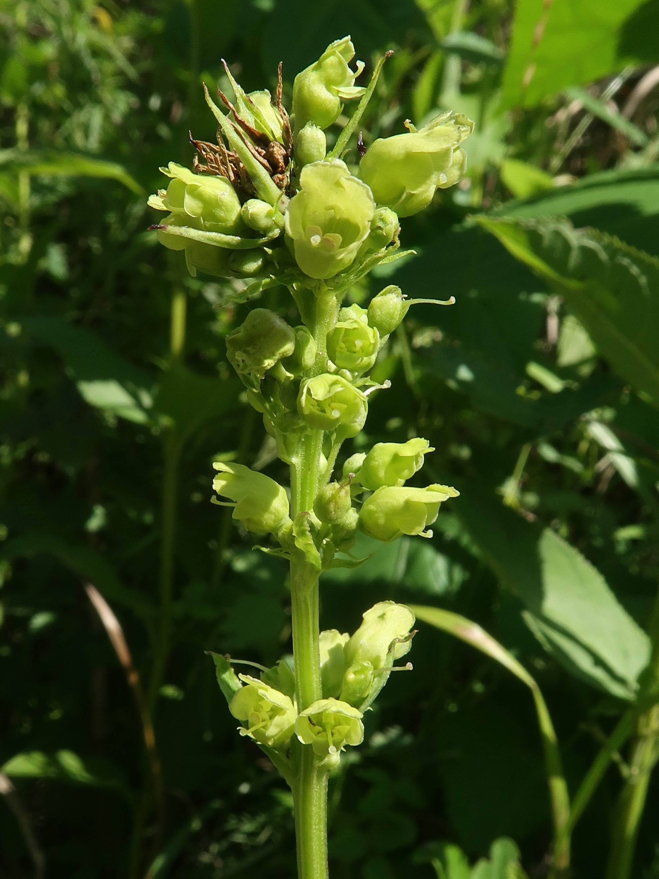 Scrophularia buergeriana, Watarase-yusuichi, Tochigi pref., Japan